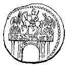 738 woodcuts illustrating the work A Dictionary of Roman Coins, Republican and Imperial (1889). To identify a coin please look at the filename to identify a page number, and check the Dictionary on numiswiki